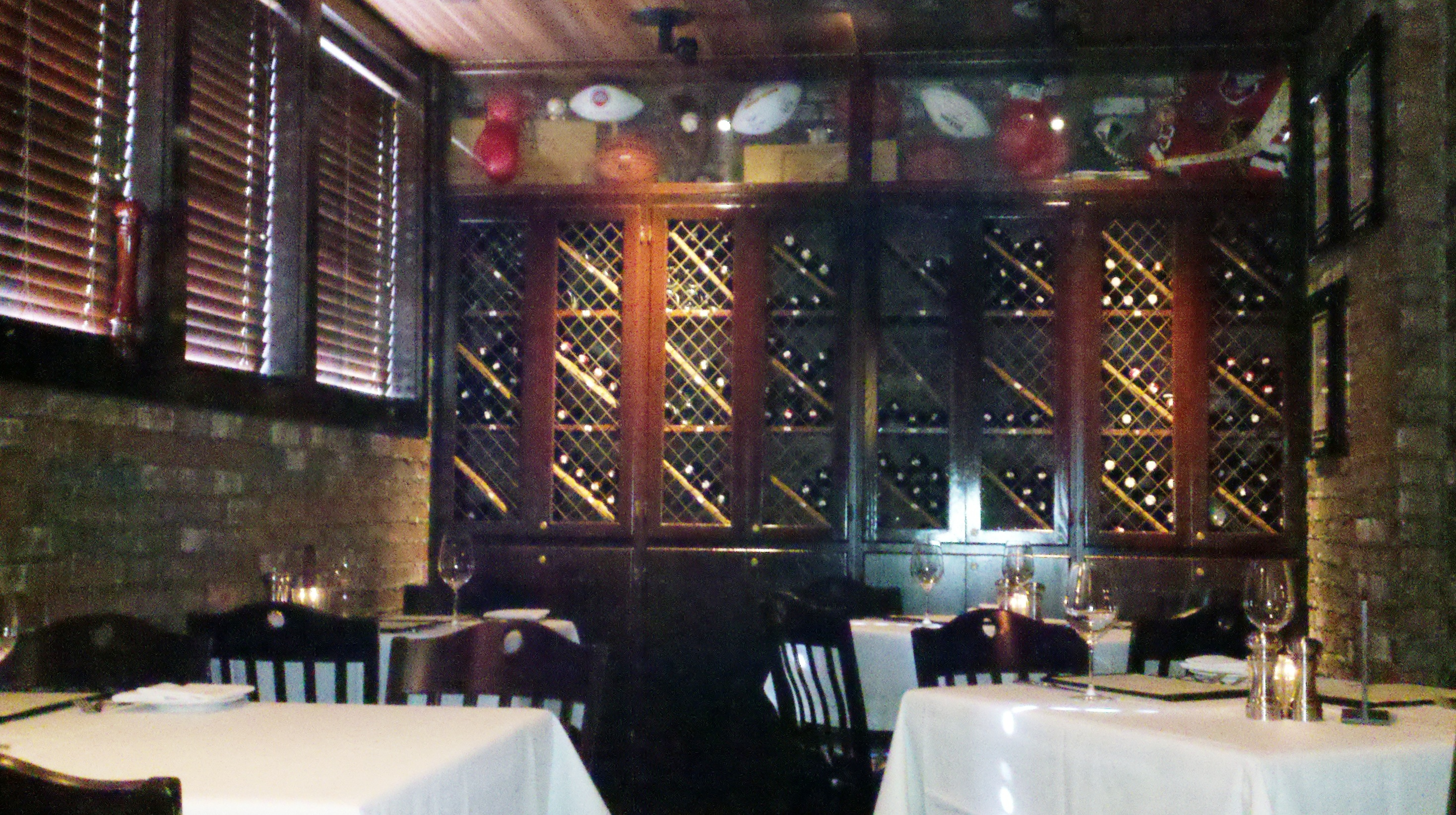 RingSide Steakhouse interior after the 2010 remodel.